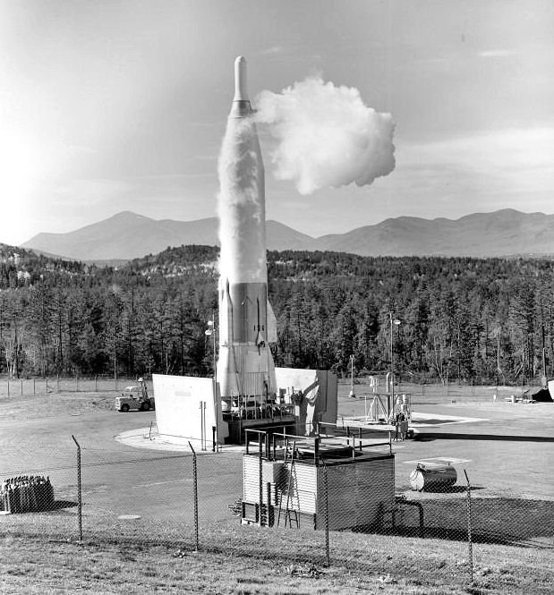 Convair SM-65F Atlas 100 556 SMS Site 6 Au Sable Forks NY (Listed as USAF Photo)